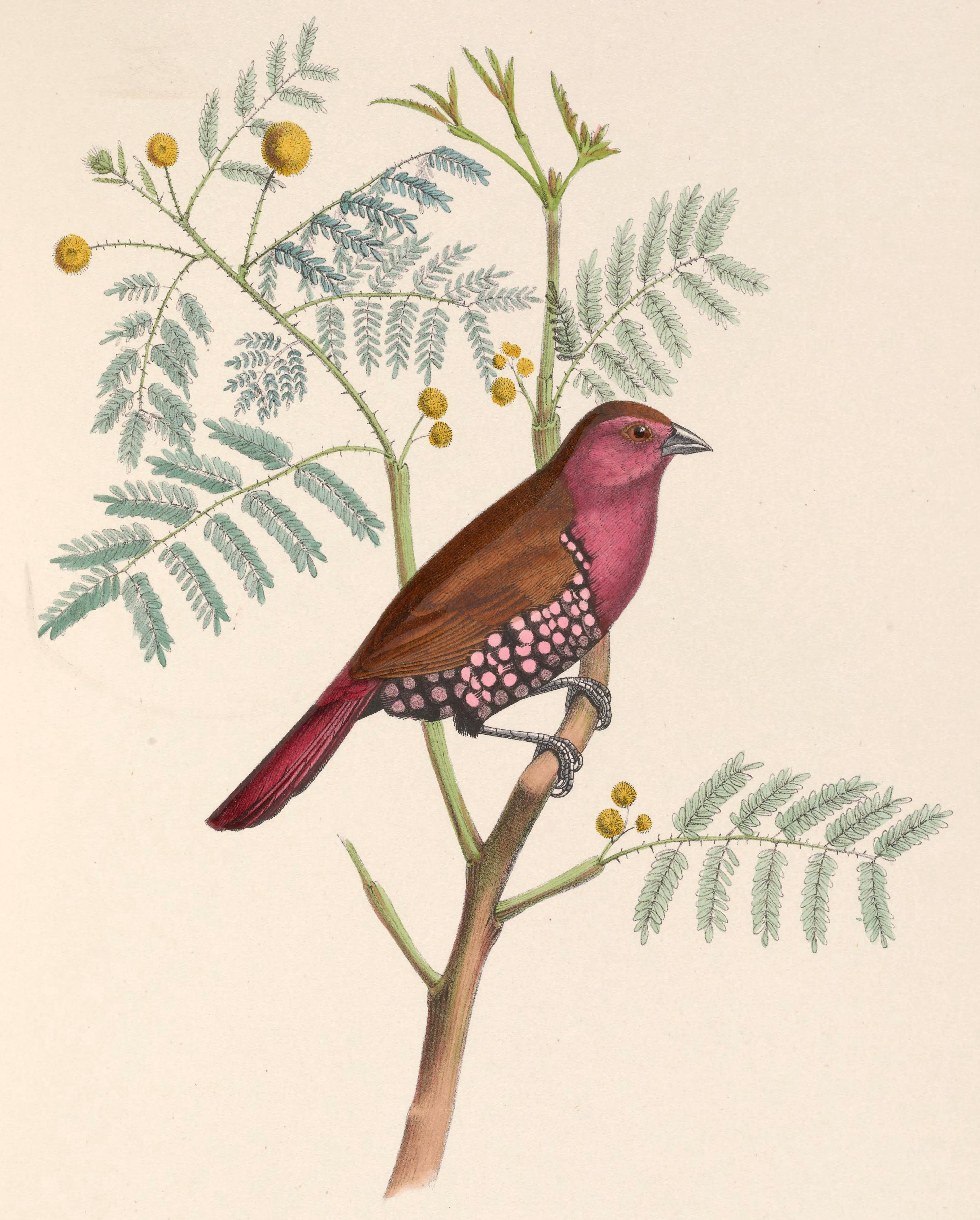 Amadina verreauxii = Hypargos margaritatus (Pink-throated Twinspot)